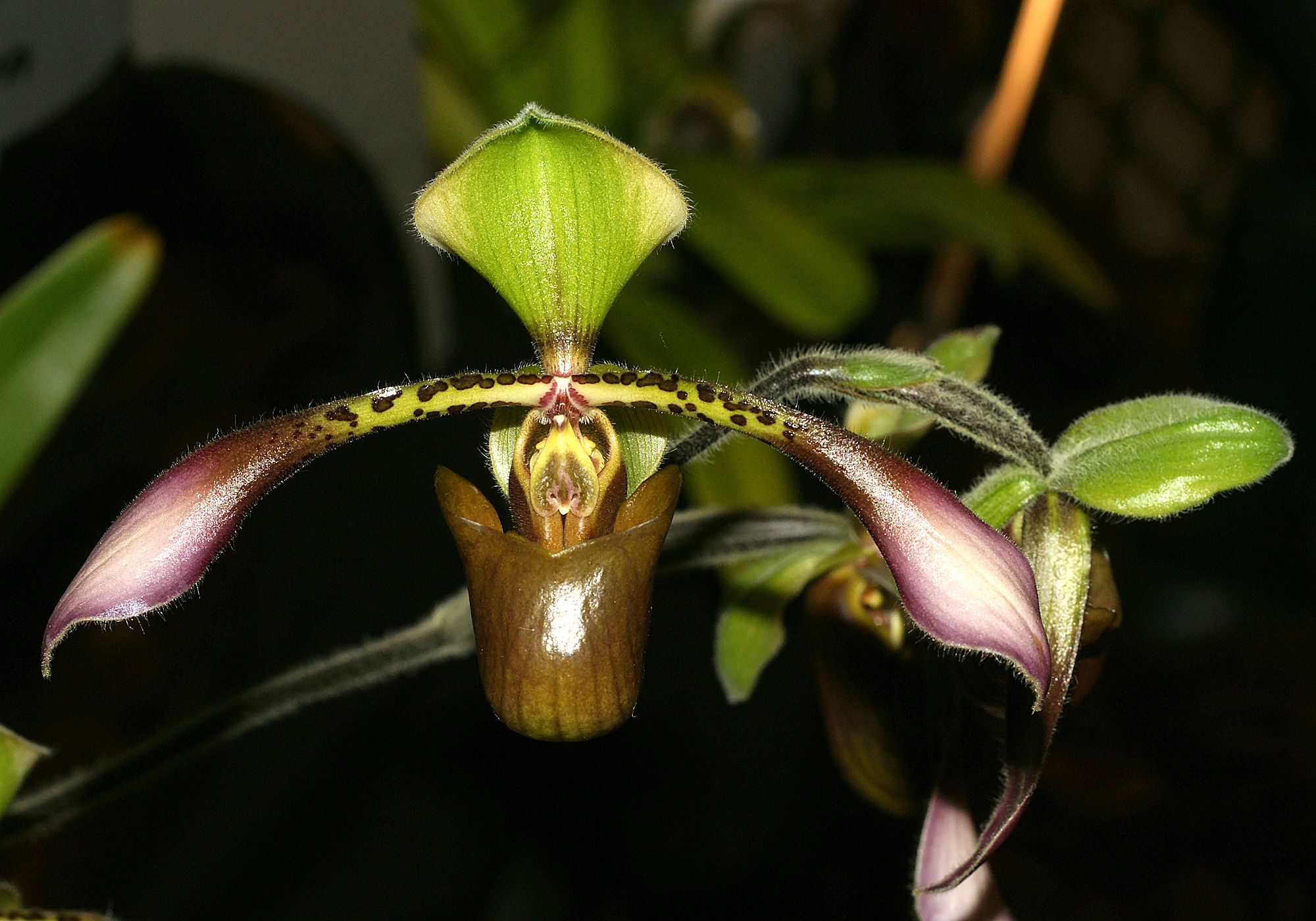 Paphiopedilum lowii